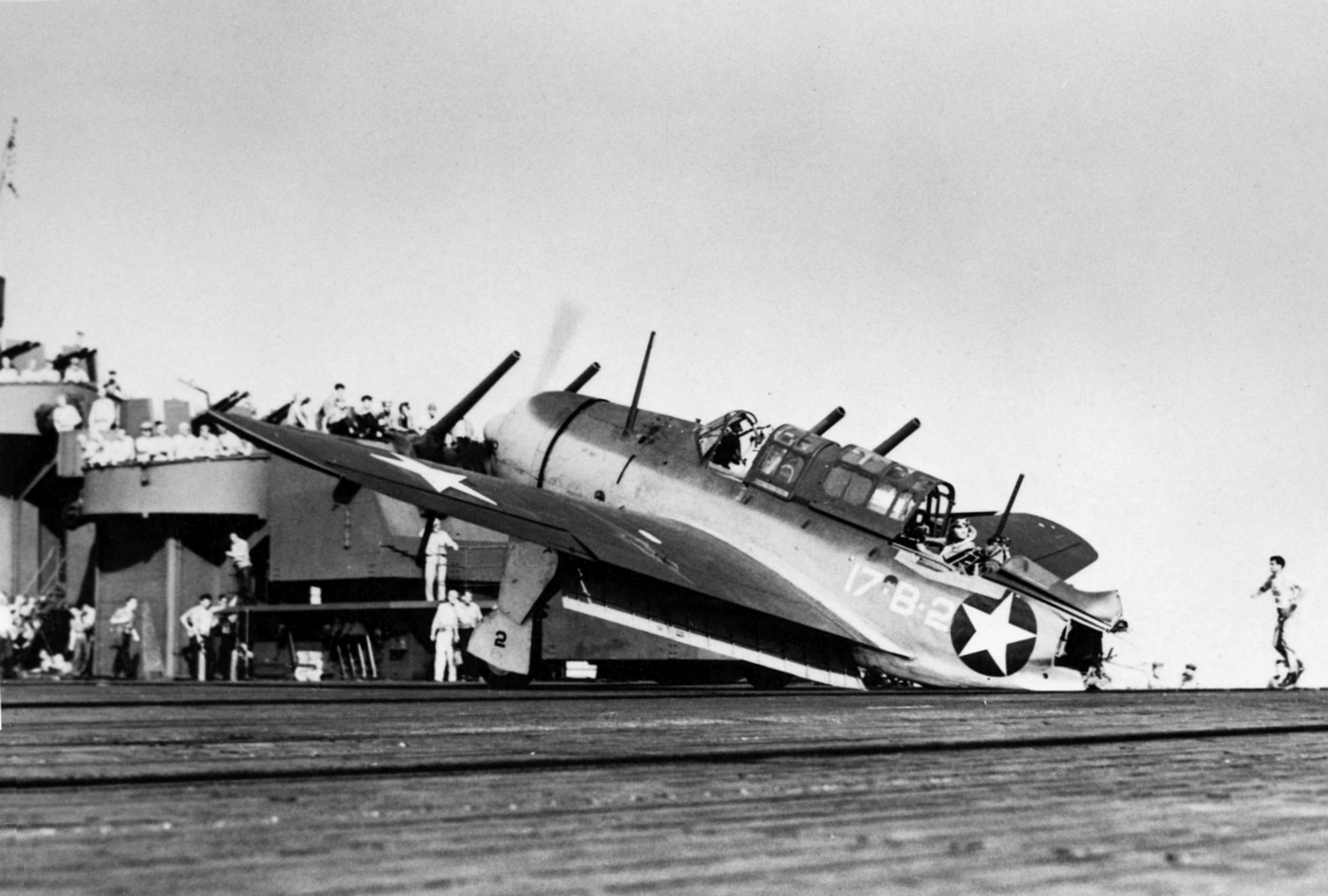 A U.S. Navy Curtiss SB2C-1 Helldiver of Bombing Squadron Seventeen (VB-17) pictured after losing its tail during recovery aboard the aircraft carrier USS Bunker Hill (CV-17) during operations in the Caribbean in 1943. The first squadron to recive the Helldiver, VB-17 experienced some growing pains with the type, losing numerous aircraft while operating from shore and aboard USS Bunker Hill (CV-17) during the carrier's shakedown cruise. While flying from Bunker Hill on 11 November 1943, the squadron introduced the aircraft to combat during a raid on Rabaul, and continued flying missions from the carrier until March 1944.